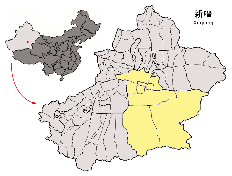 Location of Bayin'gholin Prefecture (yellow) within Xinjiang autonomous region of China Map drawn in september 2007 using various sources, mainly : Xinjiang Uygur autonomous region administrative regions GIS data: 1:1M, County level, 1990 Xinjiang Counties map from